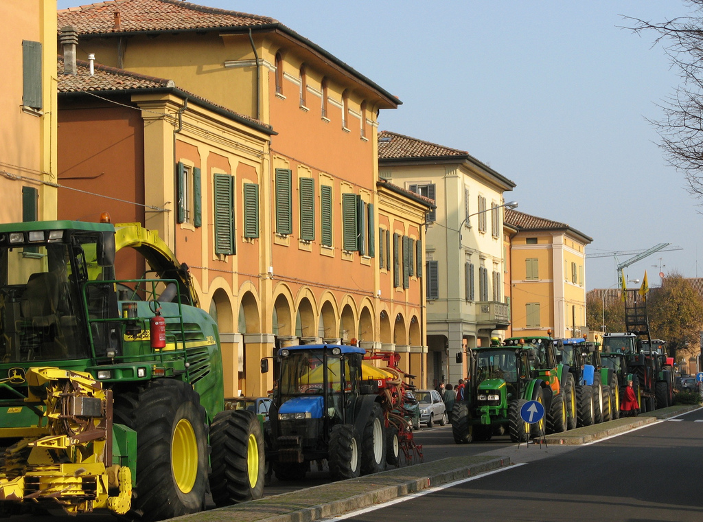 The arcades on the main avenue with several agricultural engines parked in front of them